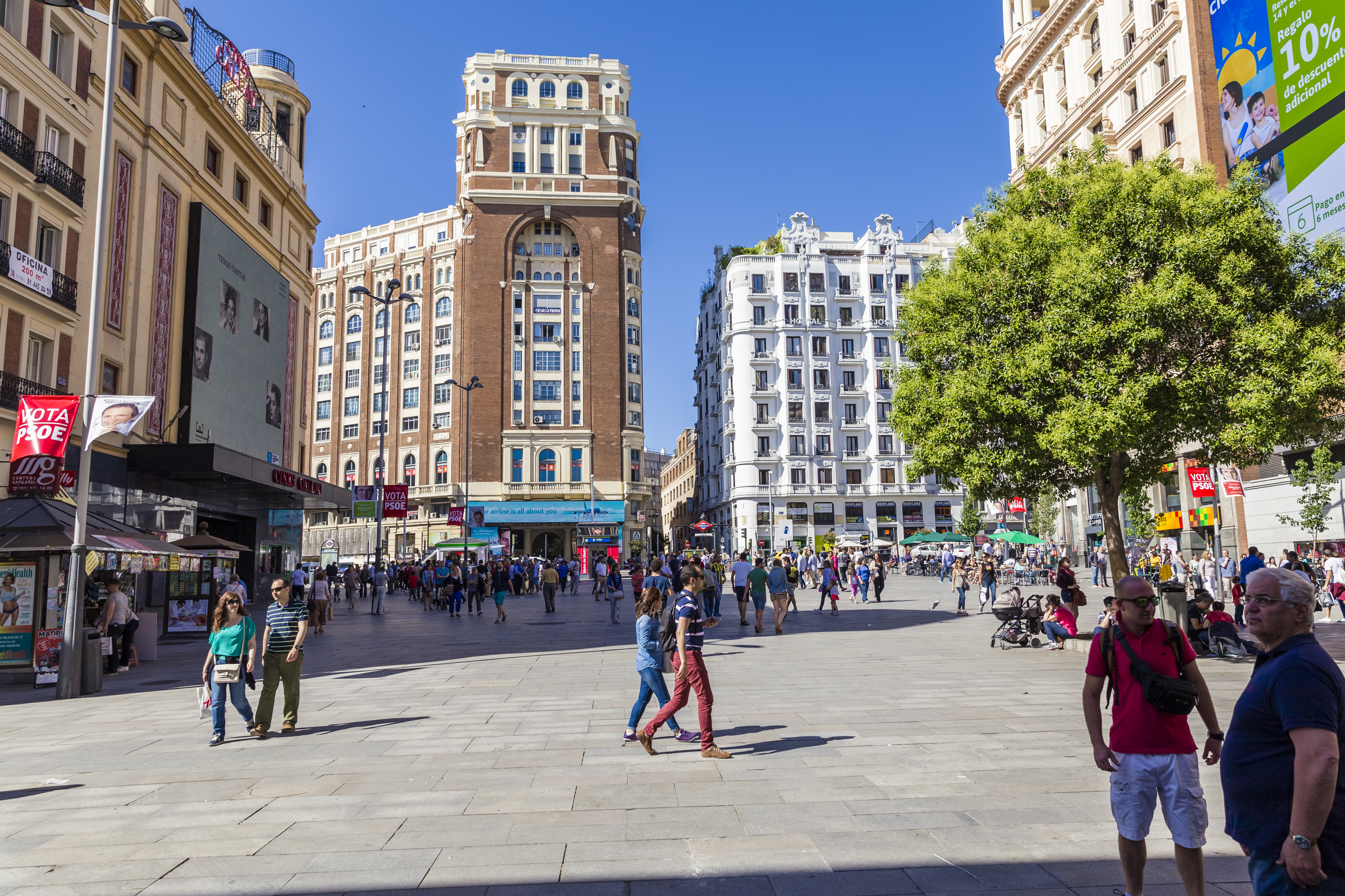 Tour around the City of Madrid Spain